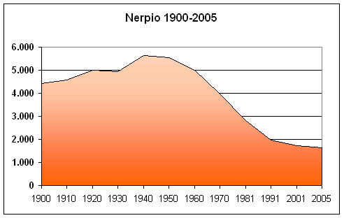 Nerpio's population, Spain, (1900-2005). Done by myself and given to PD.